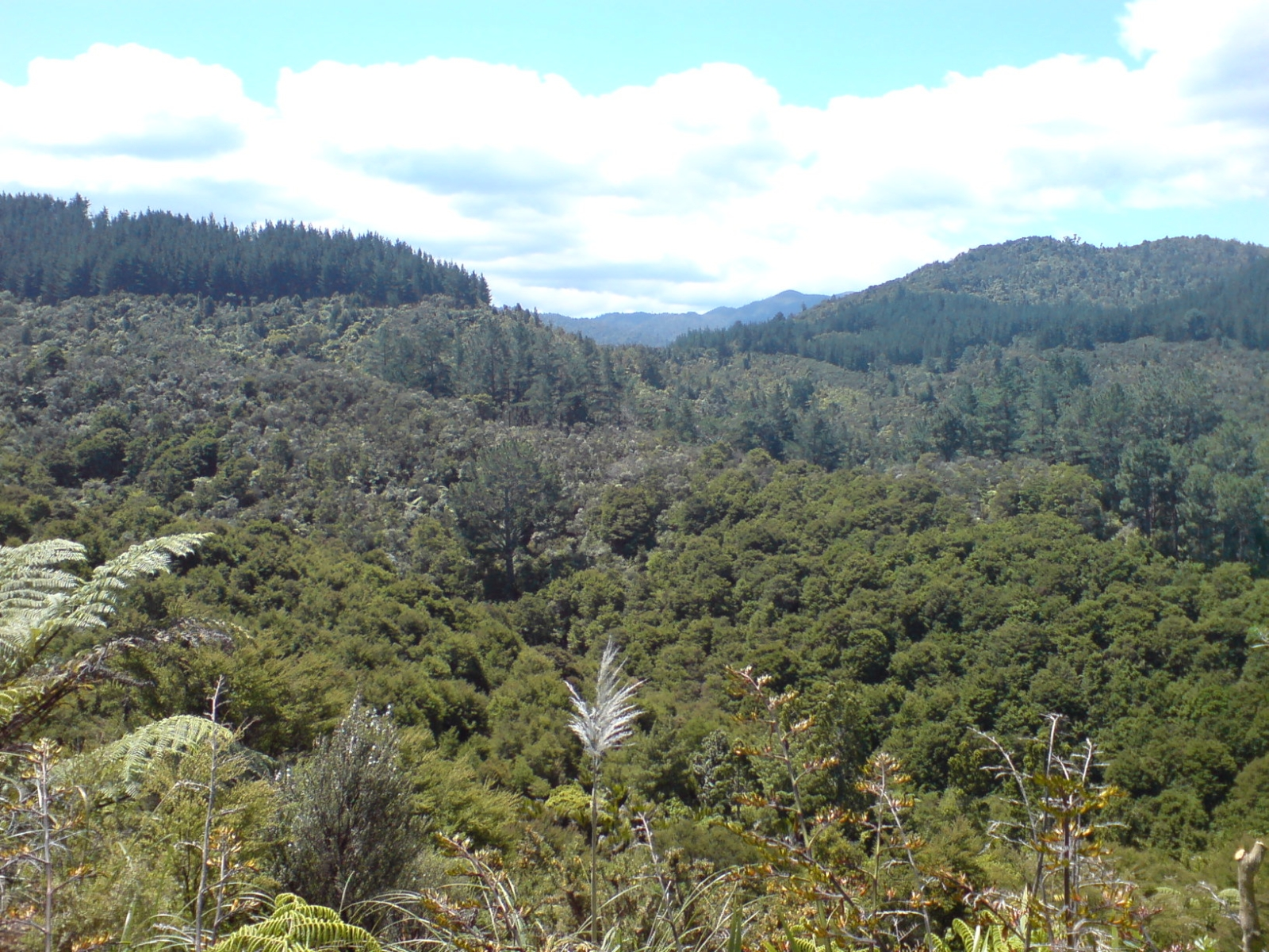 Coromandel Peninsula, New Zealand. Looking eastwards over the bush-clad hills some distance to north of Thames.